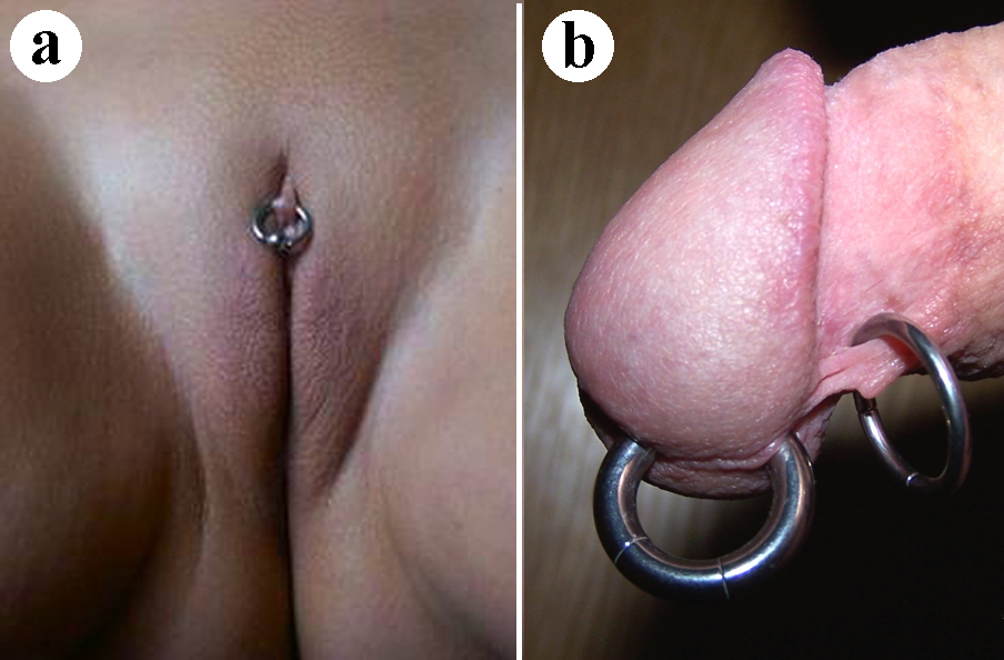 Comparative photos of (a) female and (b) male genital piercings, created for use in en Wikipedia article on glans.